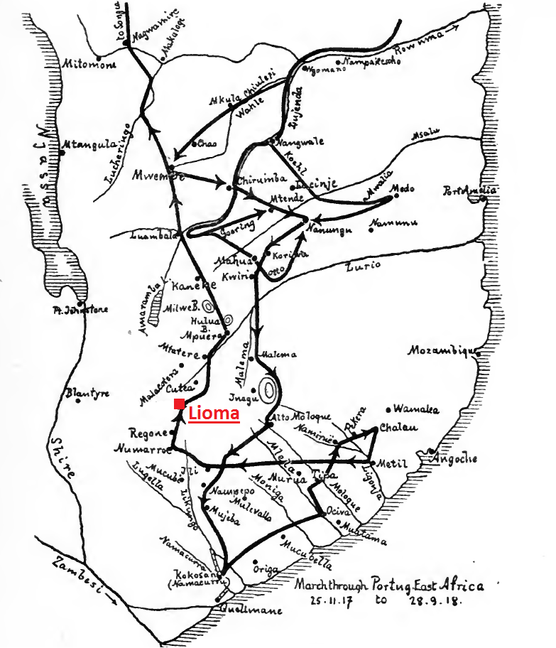 Map of the Mozambique Campaign during World War I, showcasing the location of Lioma.